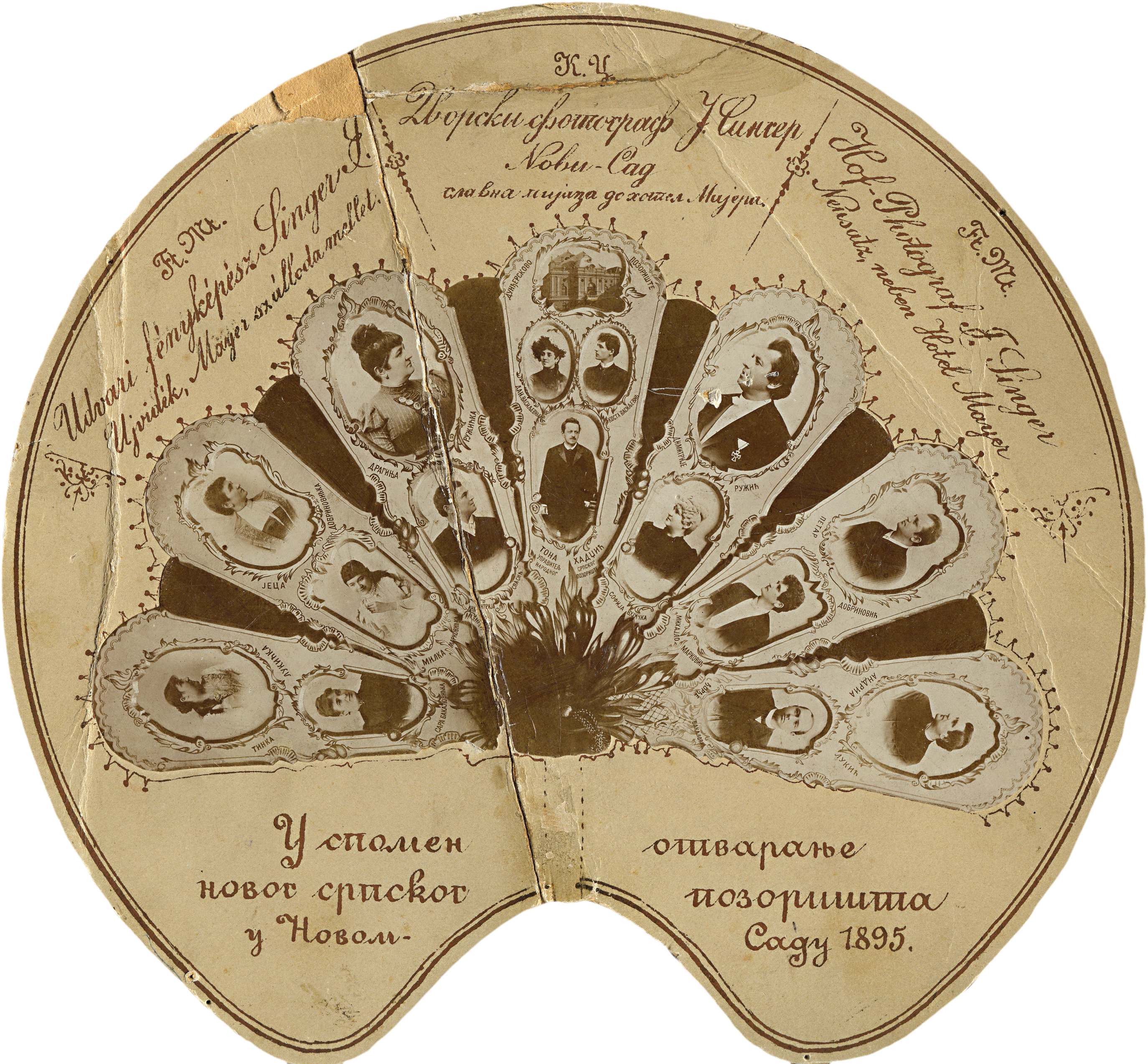 The photograph in the shape of a fan was made to mark the occasion of opening the Serbian National Theatre (so-called Dunđerski’s theatre) 1895, Novi Sad (A photography studio by Josif Singer) Srpski (latinica): Fotografija u obliku lepeze izrađena povodom otvaranja zgrade Srpskog narodnog pozorišta (tzv. Dunđerskovog pozorišta) 1895, Novi Sad (Atelje fotografa Josifa Singera) Српски (ћирилица): Фотографија у облику лепезе, израђена поводом отварања зграде Српског народног позоришта (тзв. Дунђерсковог позоришта) 1895, Нови Сад (Атеље фотографа Јосифа Сингера